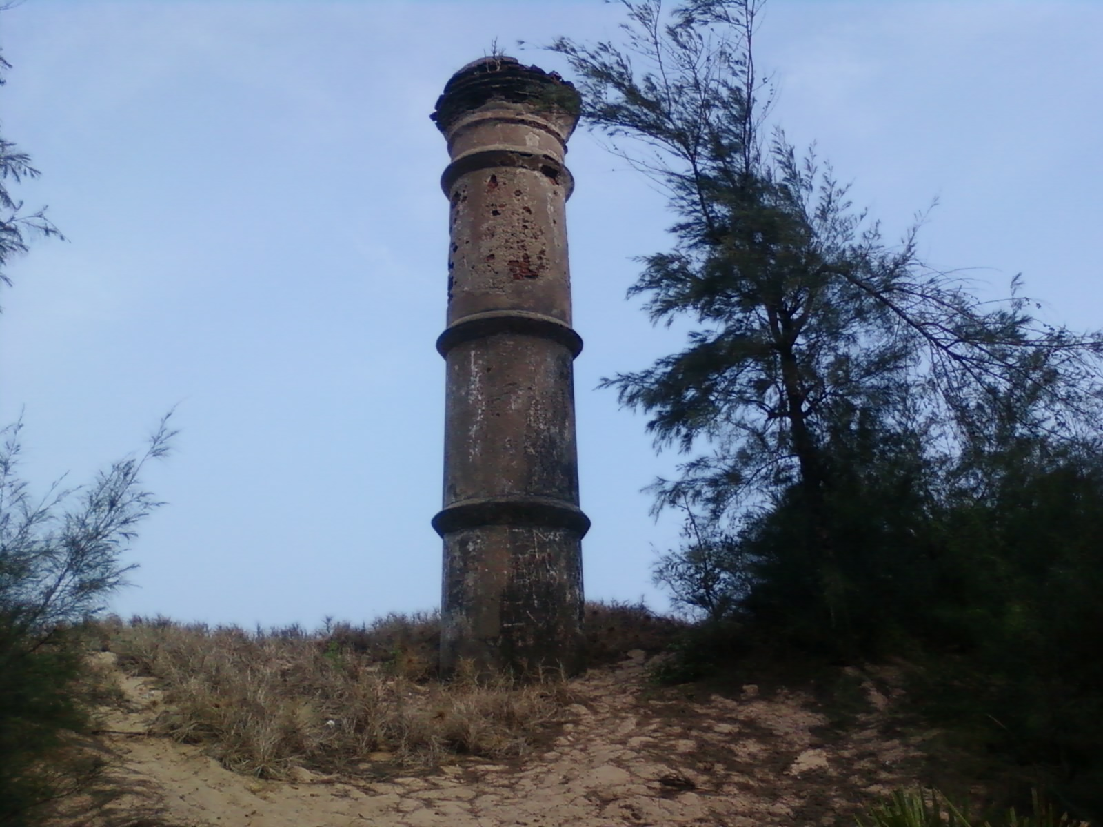 This is the pillar is located in Baruva, Srikakulam District, Andhra Pradesh, India. Baruva was used as a seaport in the era of British colonial rule in India up to 1948. In July 1917 a ship carrying goods sank in the sea. To commemorate this incident a pillar was constructed.Baruva's beach is one of the oldest in Andhra Pradesh.